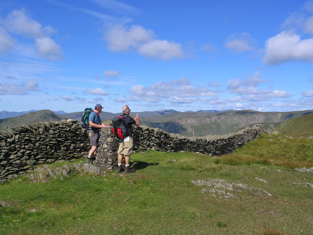 Kentmere Pike